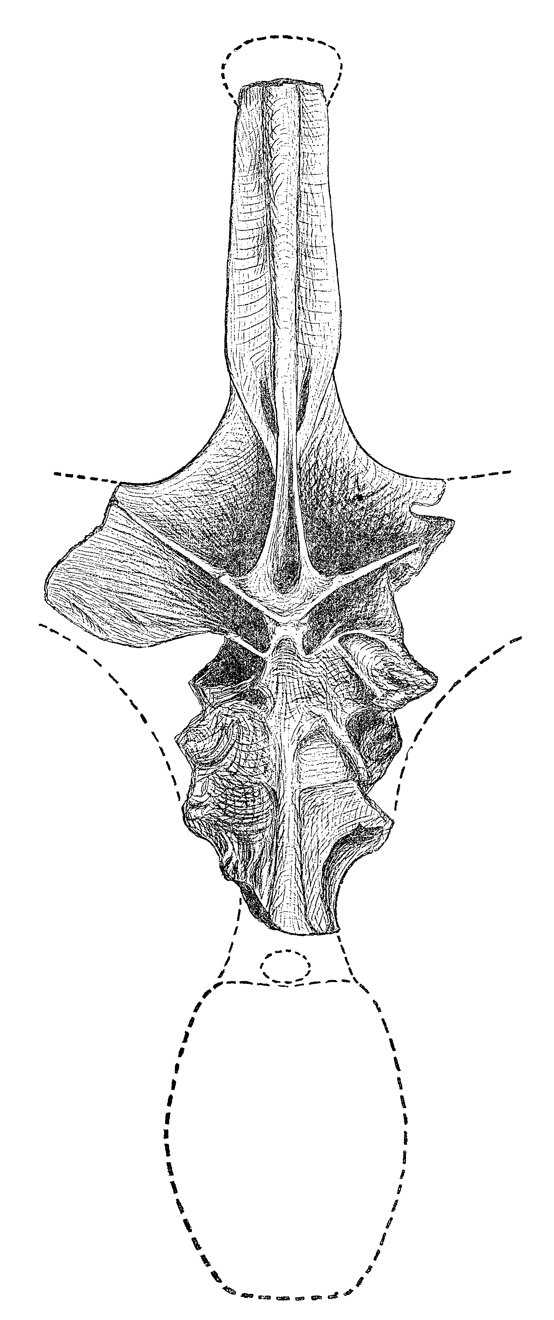 Illustrtion of the neural arch and spine of the sauropod dinosaur Amphicoelias fragillimus (specimen AMNH 5777), which accompanied the description by E.D. Cope (1878b). The preserved portion measured 1.5 m in height.